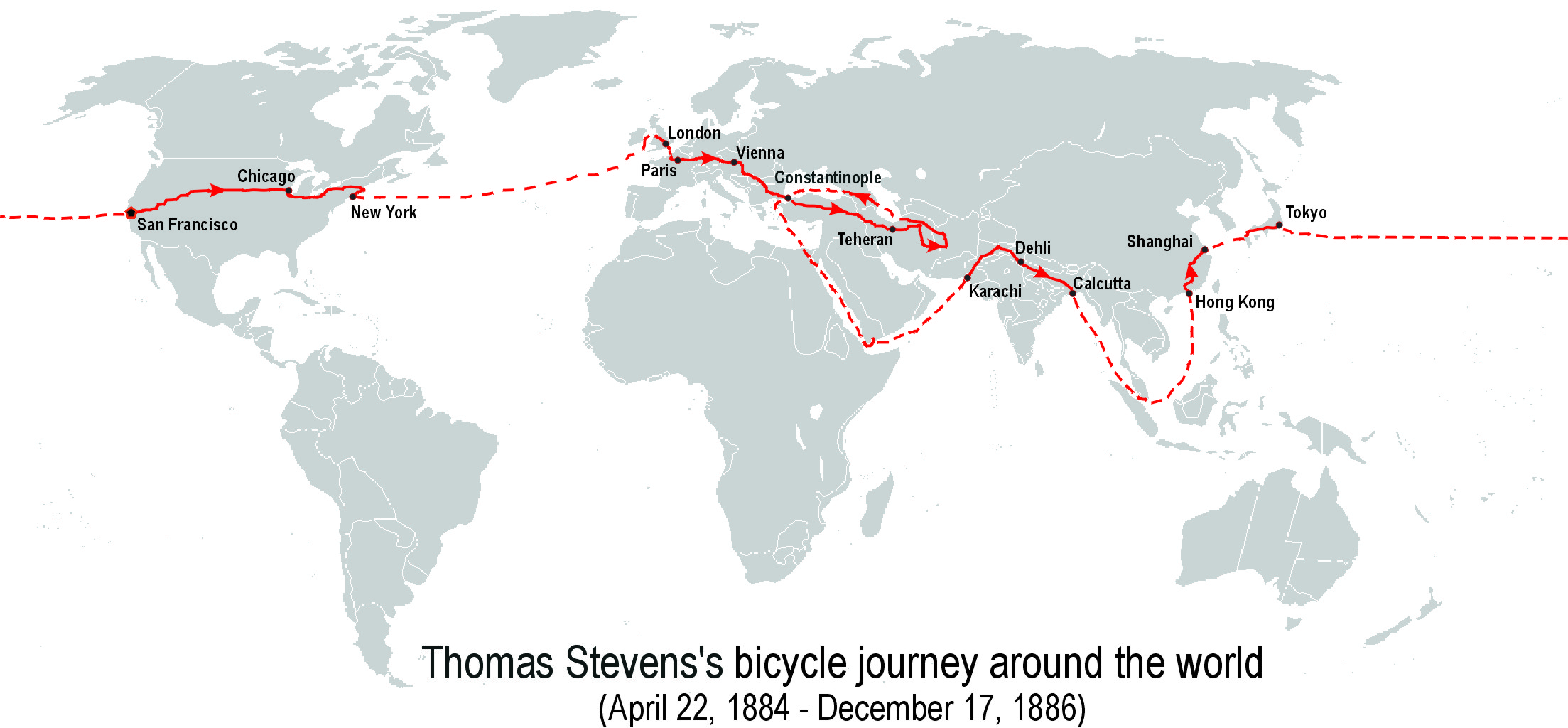 Map of Thomas Stevens's bicycle journey around the world